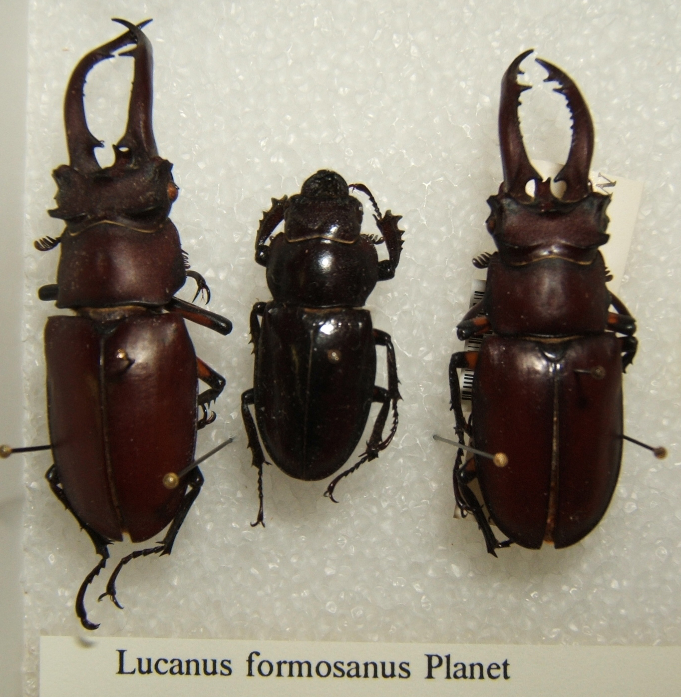 Lucanus formosanus adult taken by Shawn Hanrahan at the Texas A&M University Insect Collection in College Station, Texas.